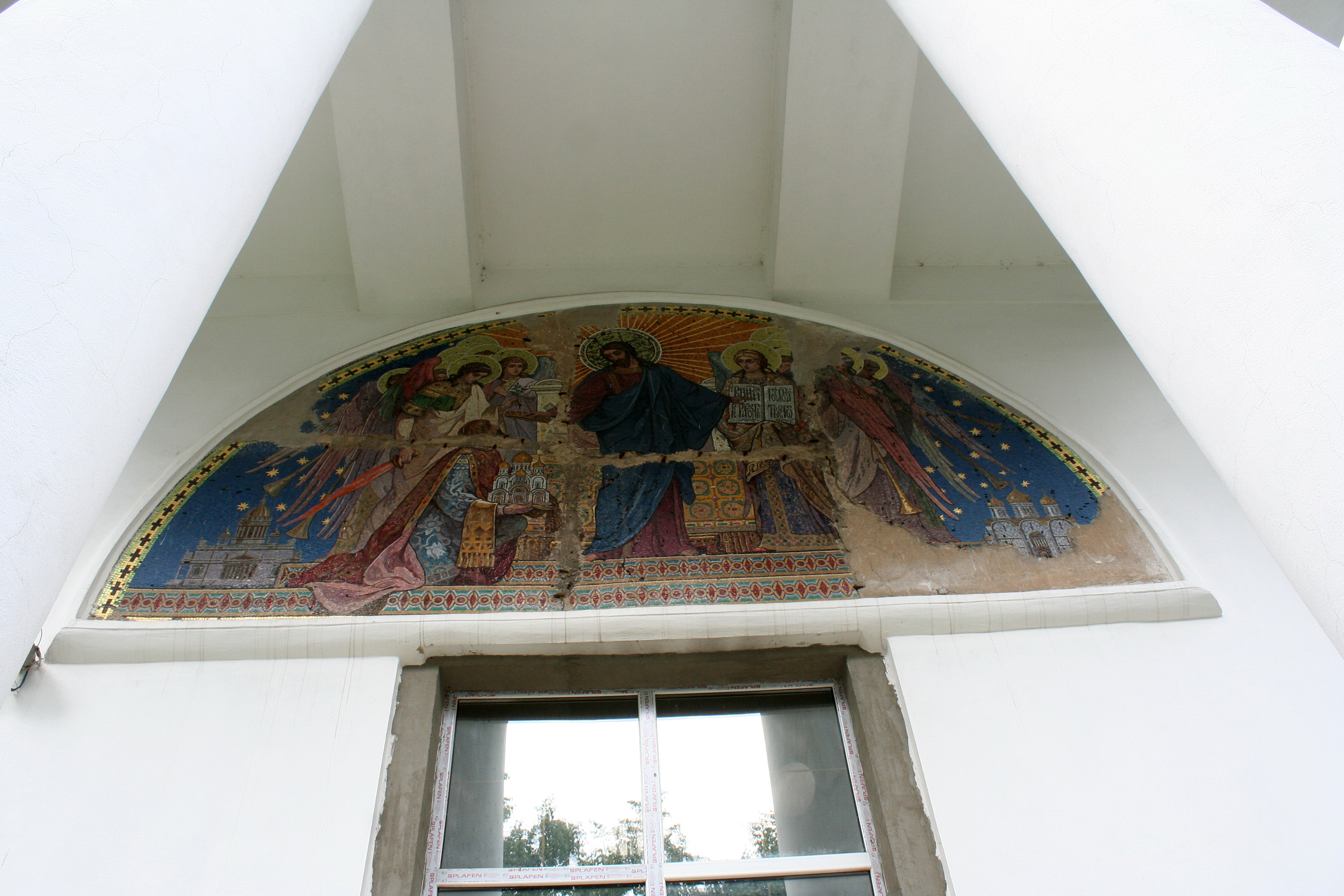 Orthodox church of the Protection of the Holy Virgin, Baranavičy. Mosaic "Christ with the donator" (Koshelev) This is a photo of Belarusian heritage monument. Reference number: 112Г000041 ( WLM)